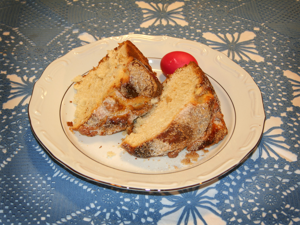 Kozunak - Bulgarian Orthodox Easter traditional pastry. (slices)